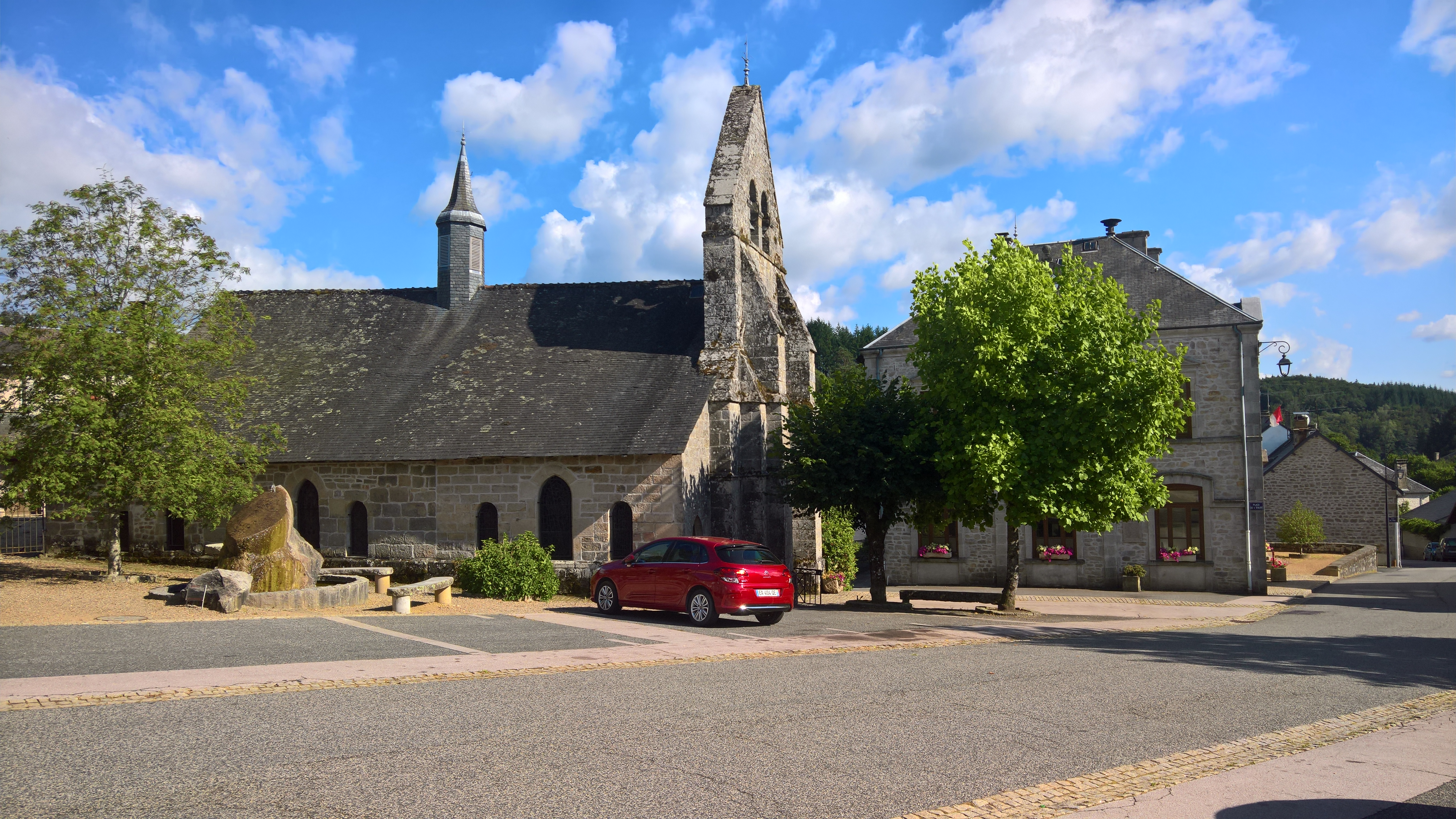 Parish Church - Bugeat